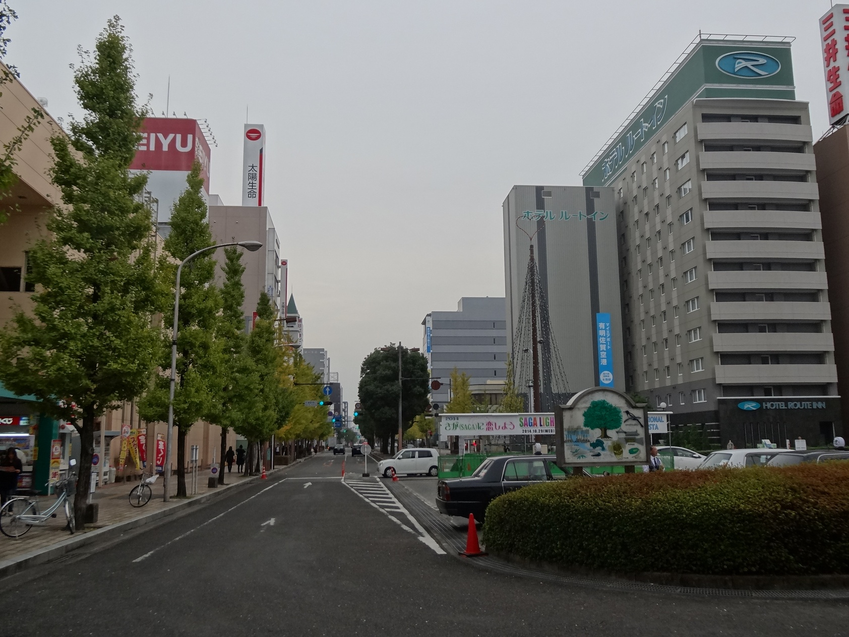 Saga Prefectural Road No.29:Saga Station Line (Saga City, Japan)